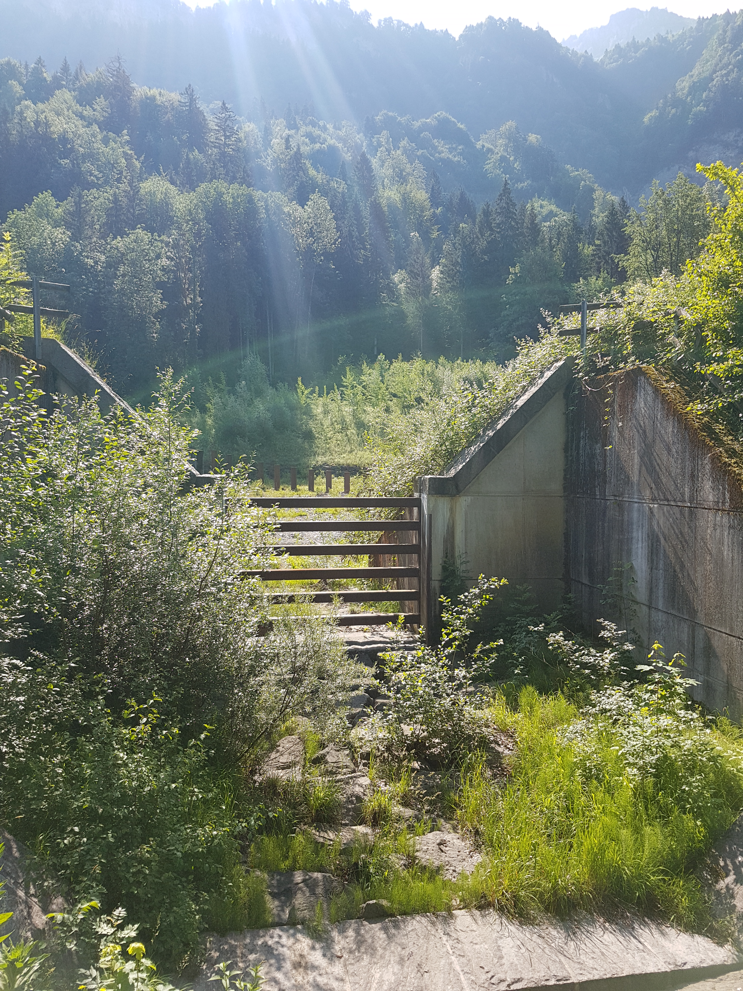 Retention basin of the Fallbach near Haslach in Dornbirn, Vorarlberg, Austria.